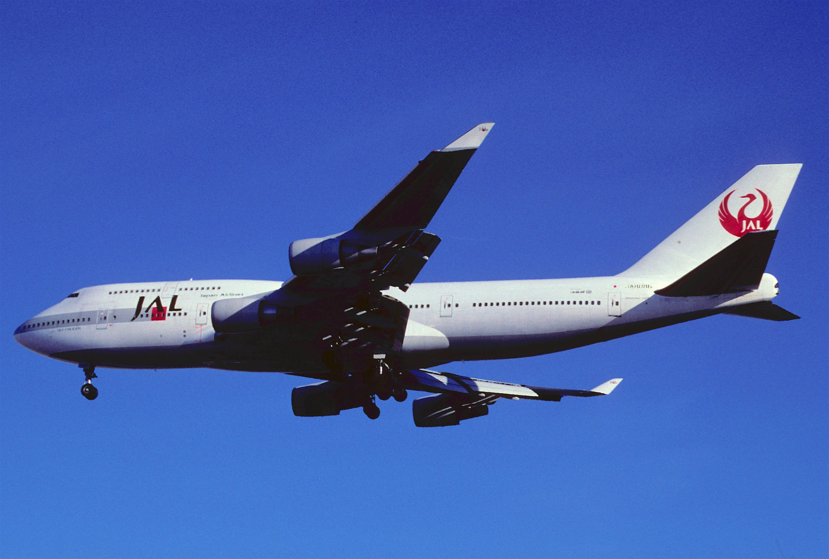 340at - Japan Airlines Boeing 747-446; JA8086@LAS;01.03.2005